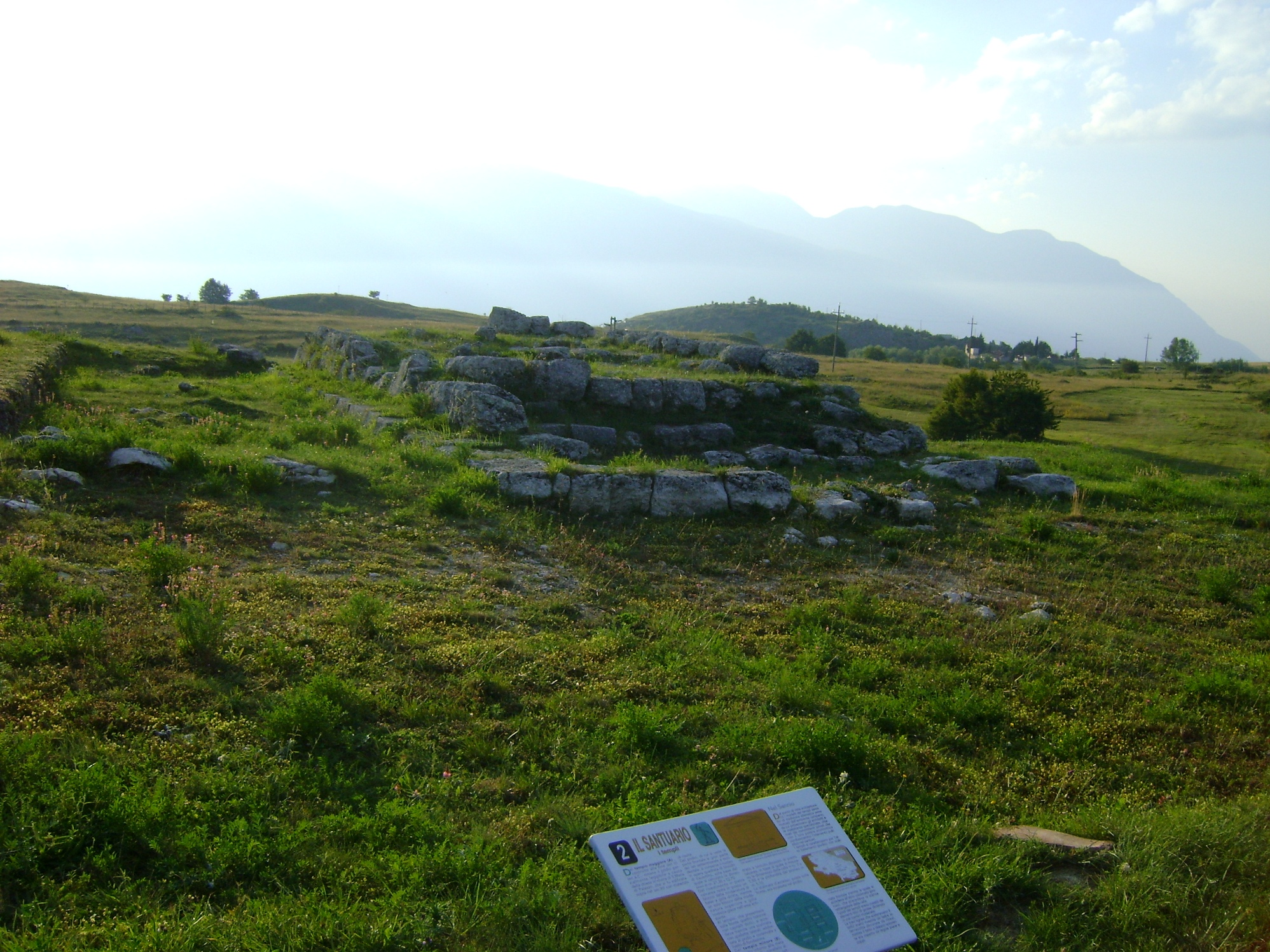 The smaller temple of the ancient Roman city of Juvanum, Montenerodomo, province of Chieti, Abruzzo